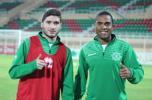 Pedro Henrique Oliveira and Angel Munoz with Al Oruba SC of Oman. Al-Buraimi Stadium 6 March 2015 Photographer email id